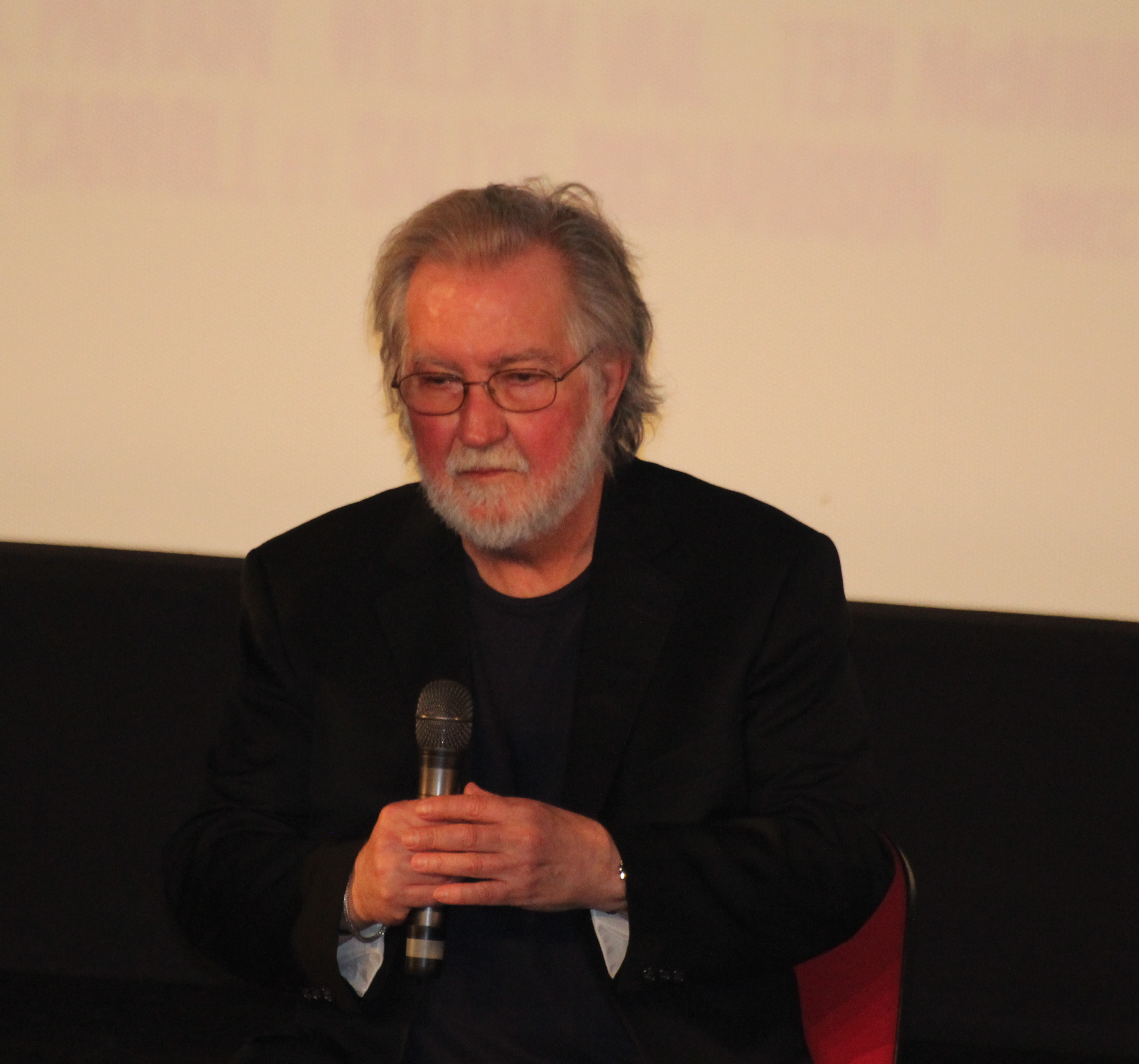 The Texas Chainsaw Massacre - 40th anniversary of the film - event at the Grand Rex September 23, 2014 in Paris, France. Object location48° 52′ 13.52″ N, 2° 20′ 51.16″ E